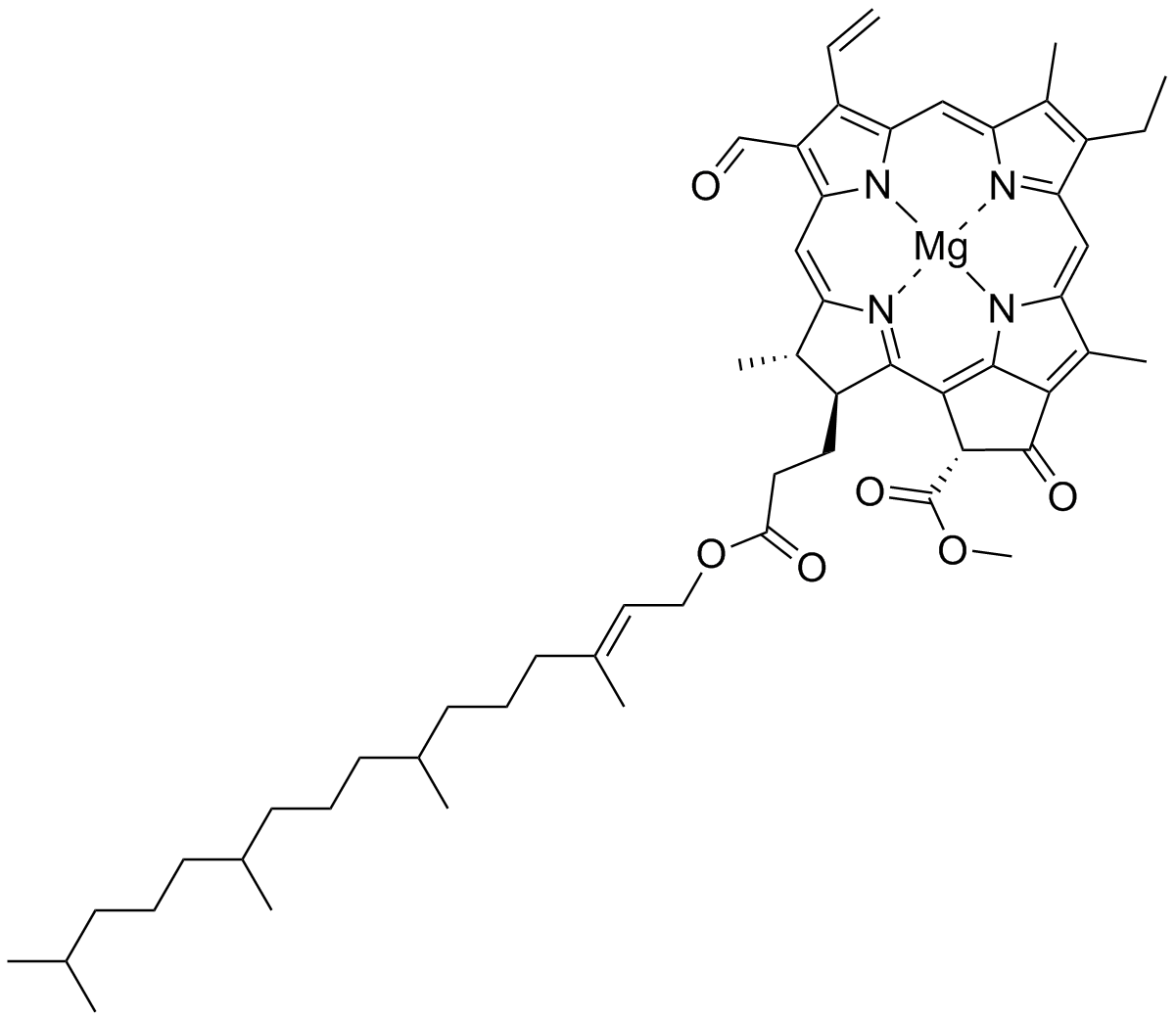 This is the structure of chlorophyll f.